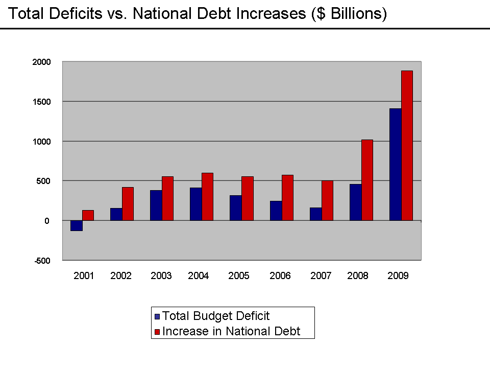 U.S. Total Budget Deficits vs. Debt Increases Description & Source Data Reported budget deficit data is from: and Reported debt change data is calculated from: On-budget vs. off-budget data is from: ; see page 370 (Table 23-1). 2009 deficit is in the CBO Monthly Budget Review for October 2009: This chart shows how the reported budget deficit often quoted in the press is increasingly not reflective of government spending in excess of tax receipts, which is indicated by debt increases. There are two primary categories of differences: thumb|Comparison of Deficits to Change in Debt 2008 "Off-budget" amounts: There are certain categories of receipts and disbursements which are included in the budget process, but are (counter-intuitively) called "off-budget." The primary item is Social Security. During 2007, the "Off-budget" surplus was $183 billion, which lowered the "On-budget" deficit of $638 billion to the "Total Deficit" of $455 billion. This total deficit figure is the amount often reported in the press; such amounts are illustrated by the blue bars in the chart. Supplemental appropriations: These amounts are authorized for payment via legislation outside the annual budget process. Examples are the costs of the Iraq & Afghanistan Wars (about $750 billion total since 2001), the Economic Stimulus Act of 2008 (about $170 billion), and earmarks (about $20-$50 billion per year). Since the debt went up about $1017 billion during 2008, that means $379 billion (1017-638=379) were non-budgeted expenses or outside the annual budget process.